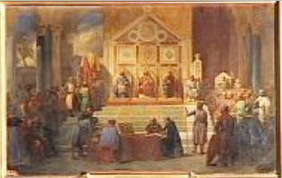 council of Acre before siege of Damascus